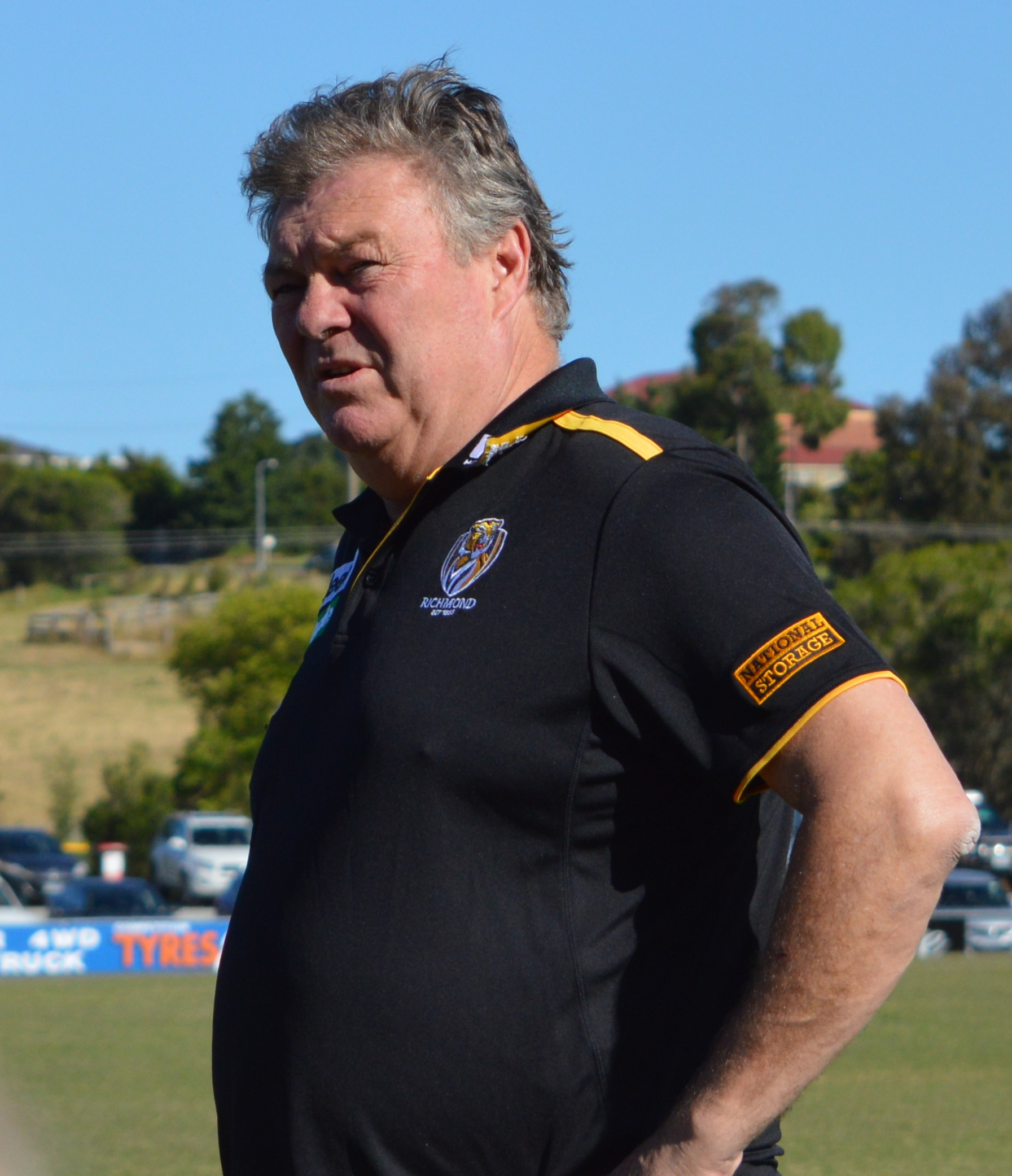 Neil Balme at the Richmond Football Club family day in Beaconsfield Victoria on 20 December 2016.